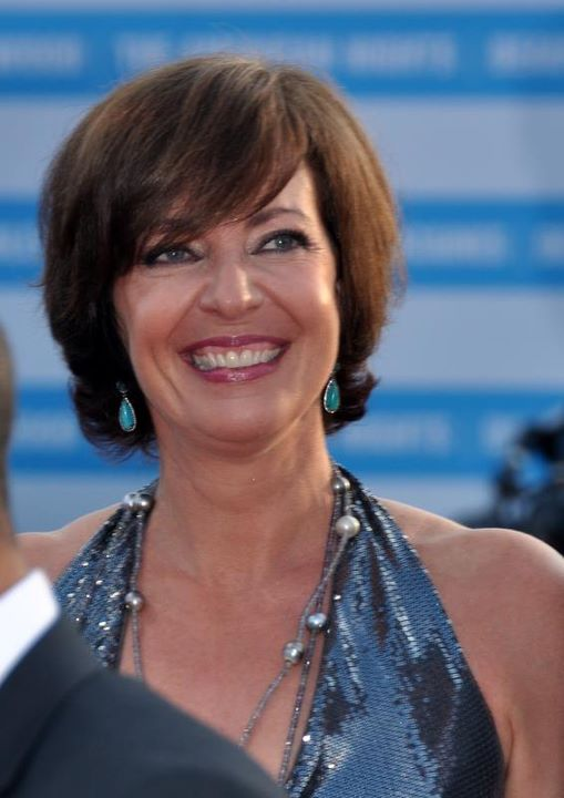 Allison Janney at the Deauville film festival